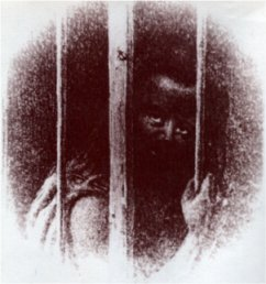 Victorian engraving of the hermit James Lucas died 1874.